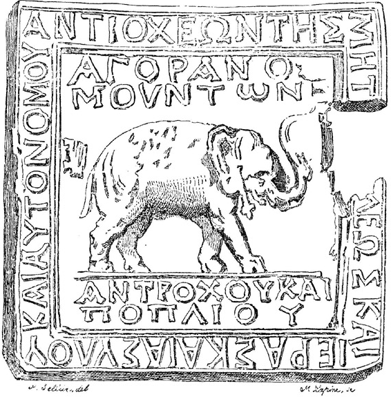 Mina of Antiochia (Syria).